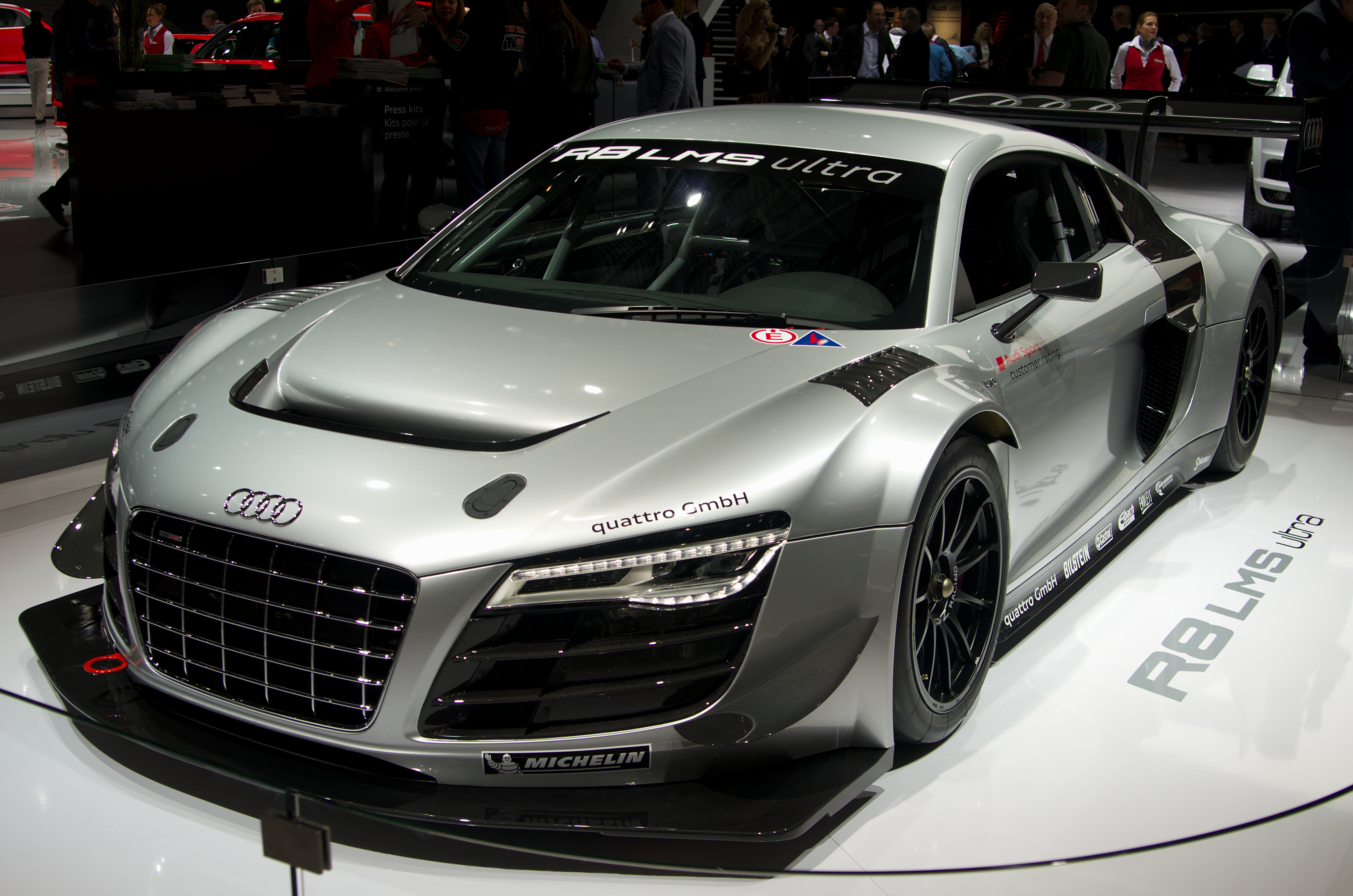 Geneva MotorShow 2013 - Audi R8 LMS ultra front right